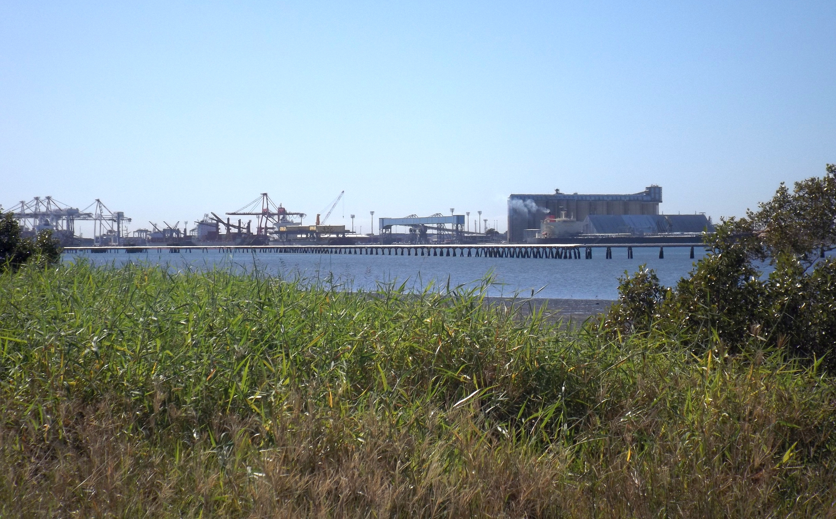 The Brisbane River of Port of Brisbane seen from Pinkenba, Brisbane, Queensland, Australia.